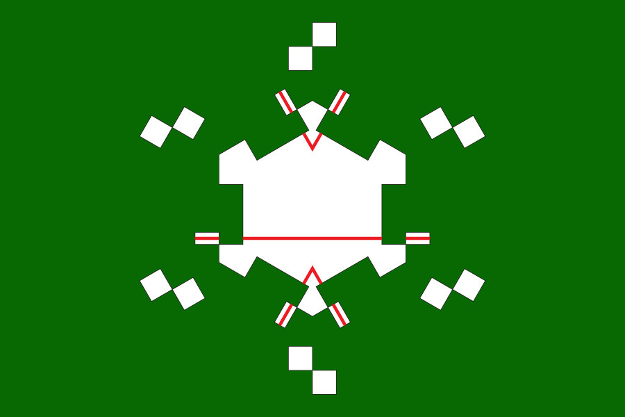 The 2-dimensional aperiodic Socolar-Taylor monotile, which is not topologically connected. Red lines are included to illuminate the structure of the tiling, and are not required for aperiodicity, which is implemented here entirely geometrically.